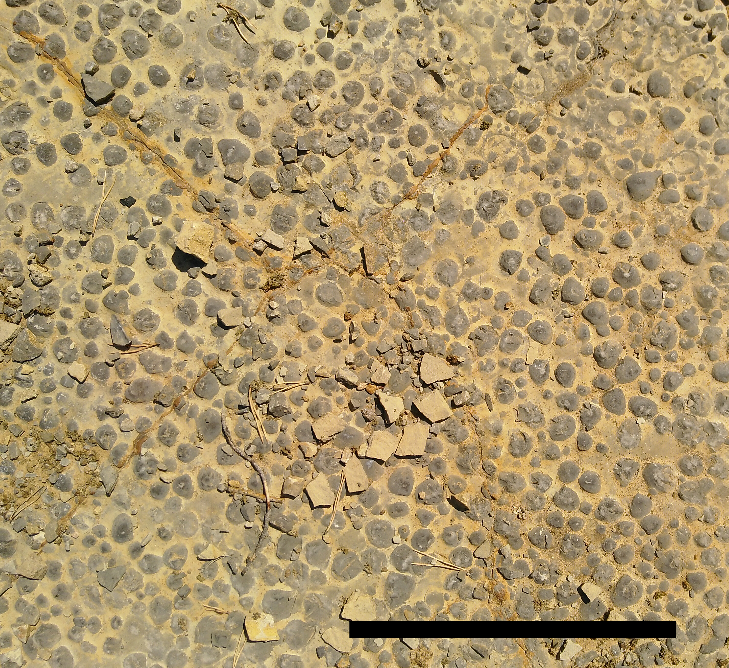 Fossilized mussel bank at Geotop Ramsthal. The scale bar is 20cm. Picture taken August 6th 2018.